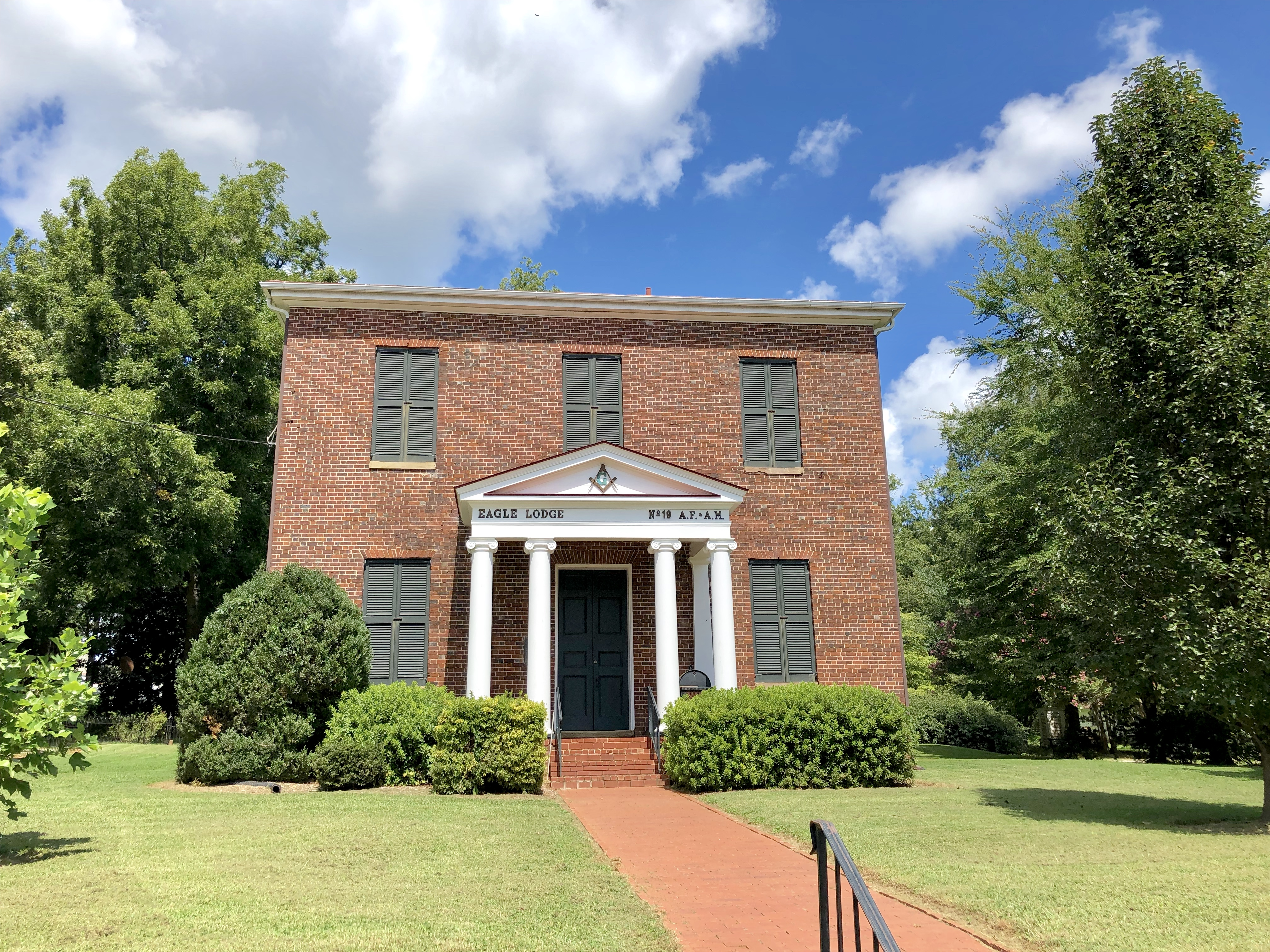 This is the Eagle Masonic Lodge, constructed in 1823 and located on King Street in Hillsborough, North Carolina. The building was listed on the National Register of Historic Places in 1971.